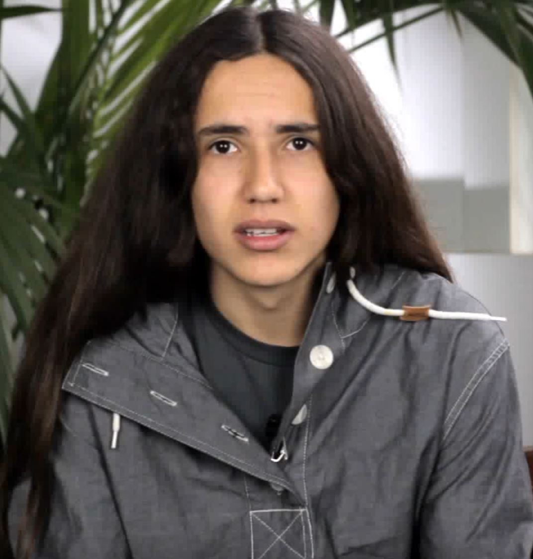 Cropped video still of Xiuhtezcatl Martinez talking to camera in 2016